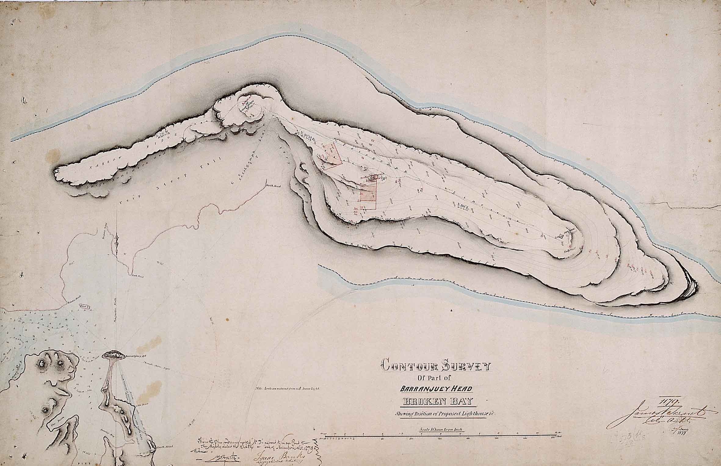 Contour survey of part of Barrenjoey Head, Broken Bay - showing position of proposed lighthouse, by James Barnet - NSW Colonial Architect, 1877